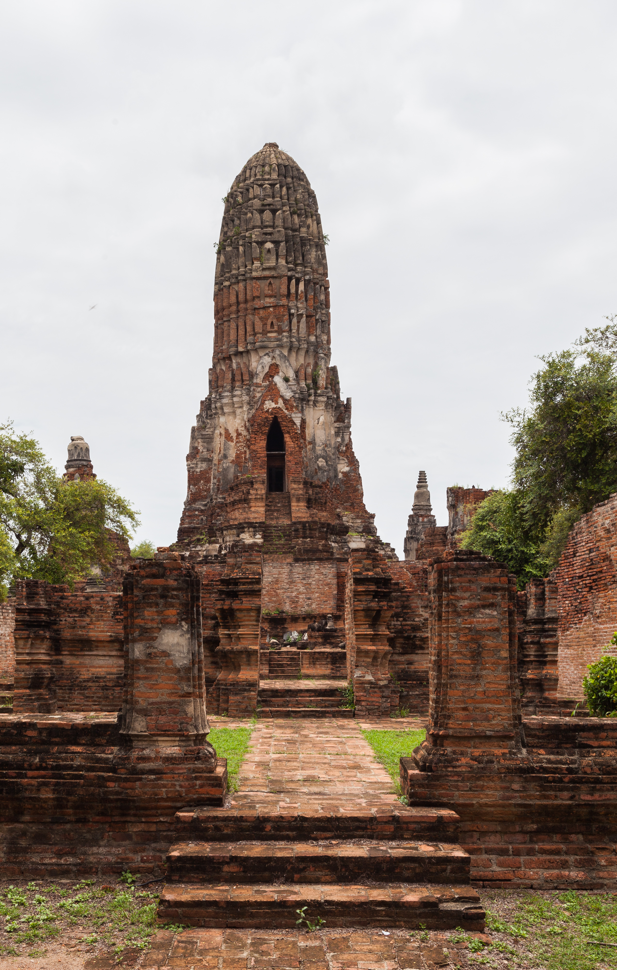 Phra Ram temple, Ayutthaya, Thailand